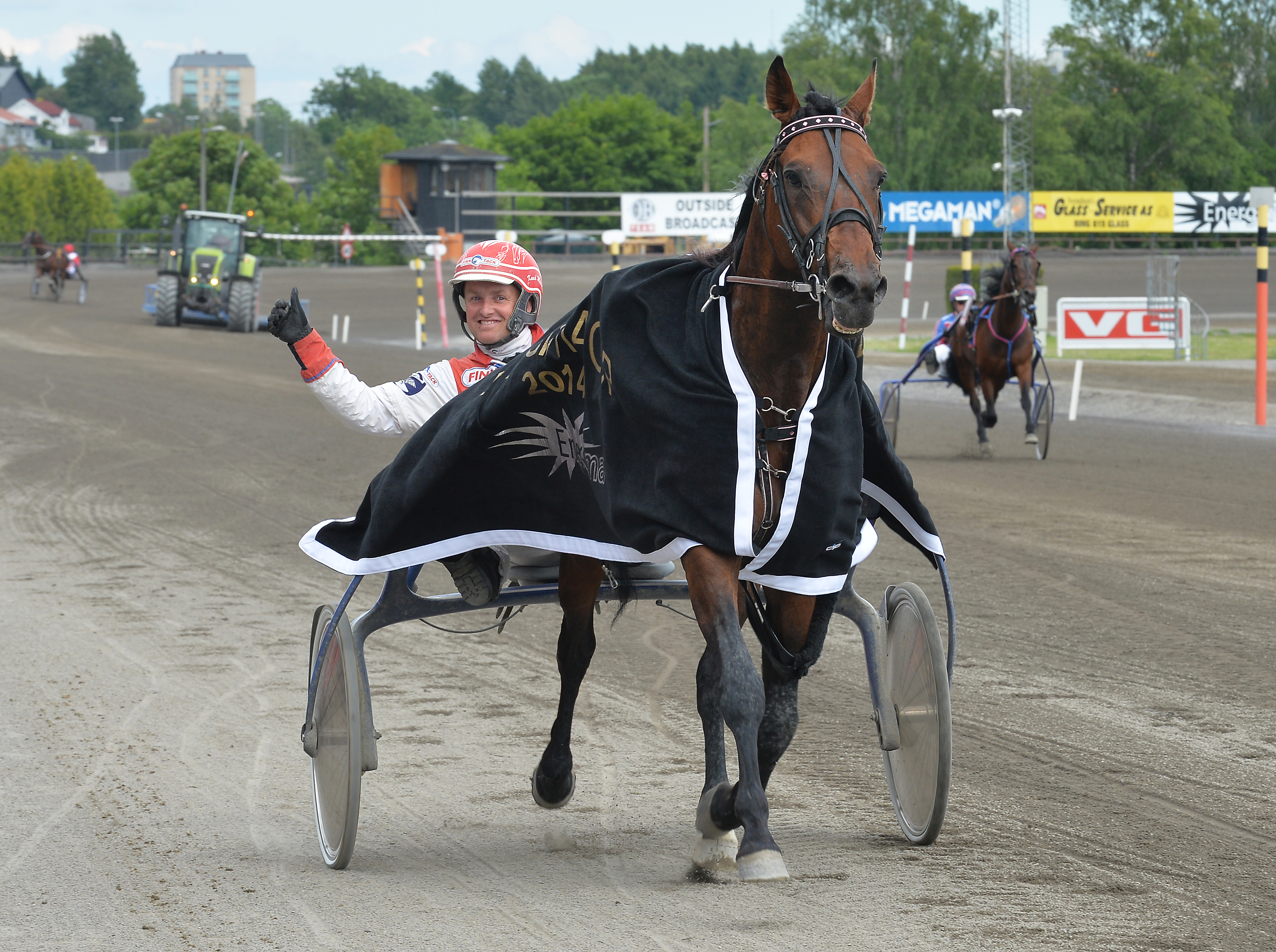 Repay Merci and Knud Mönster after winning Energima Cup 2014-06-08 in Norway.